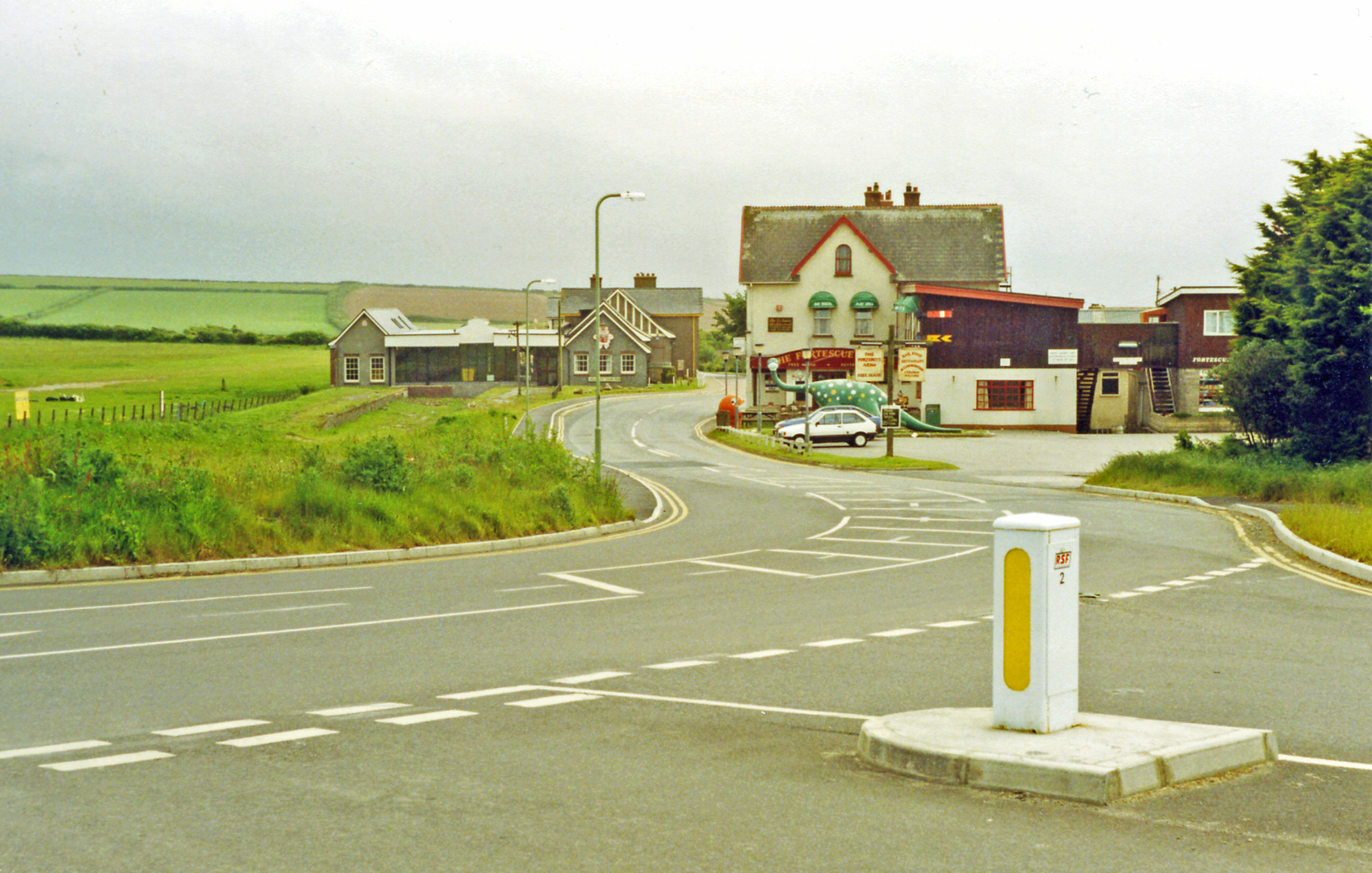 Former Mortehoe station, 1991. View southward, towards Barnstaple etc.: ex-LSW (Exeter) - Barnstaple Junction - Ilfracombe line, closed 5/10/70.